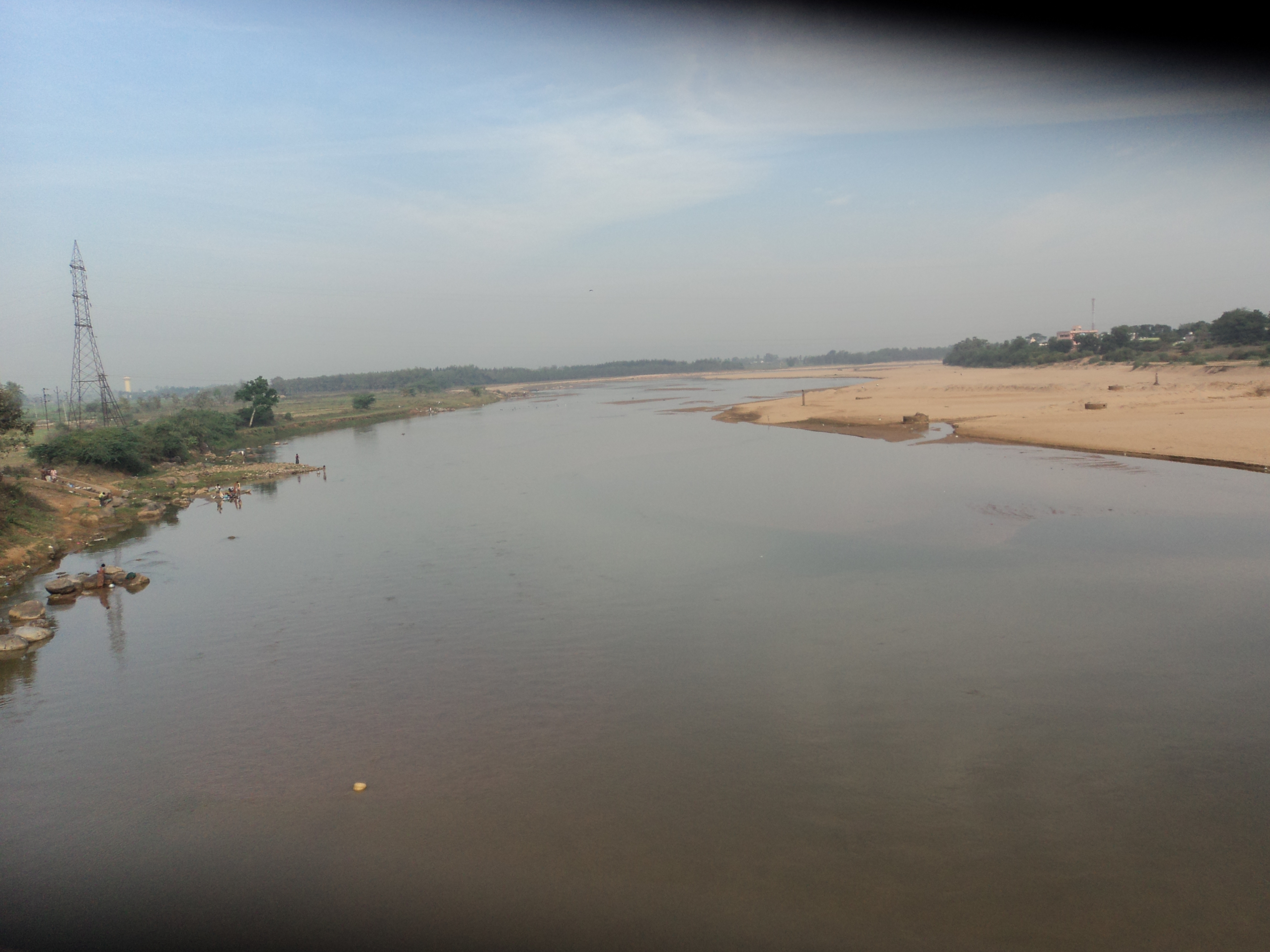 This is photograph of Nagavali river near Srikakulam taken from the new road bridge by me.Rajasekhar1961 (talk) 13:24, 23 February 2012 (UTC)